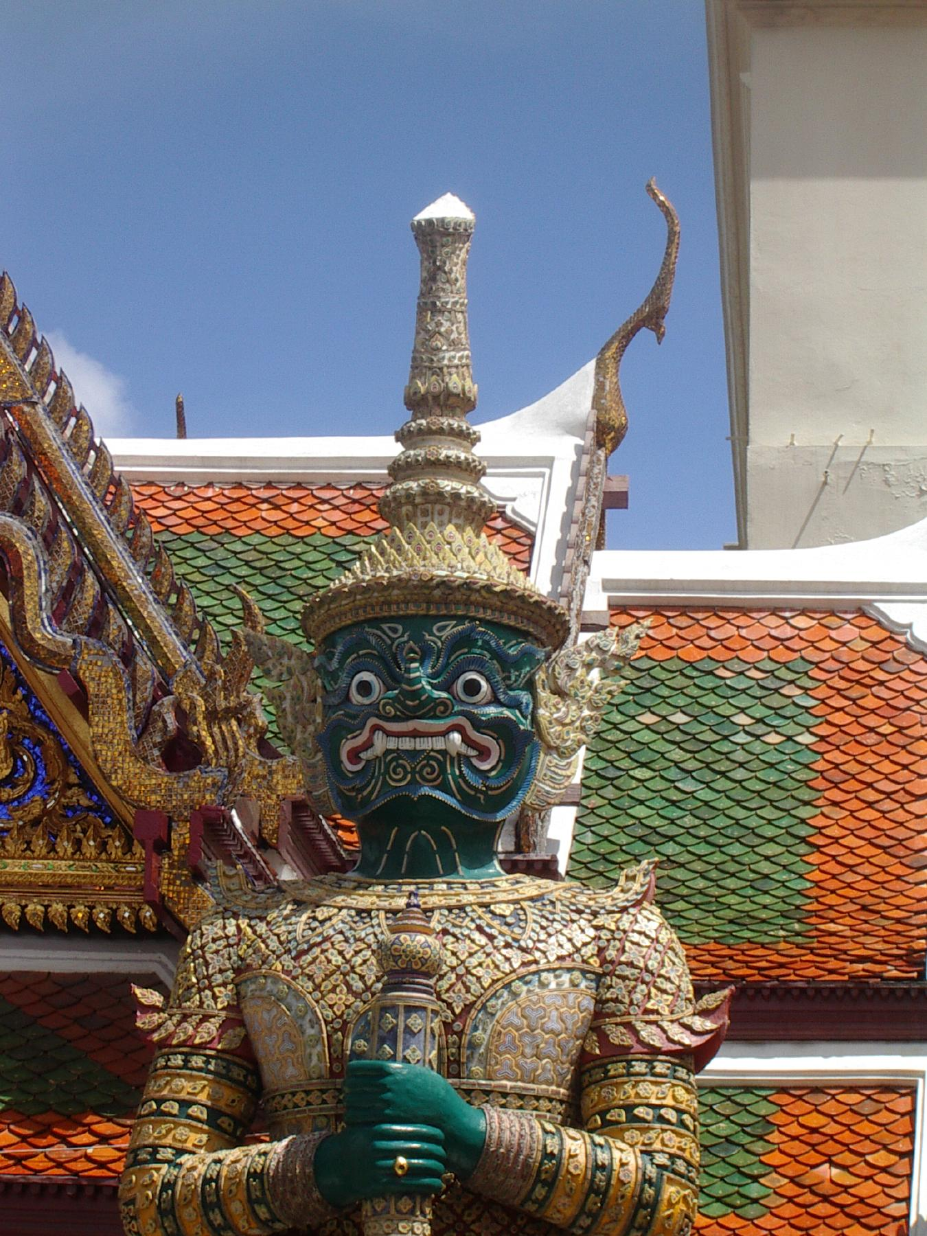 Thotsakhirithon - one of twelve giant demons (Yaksha), characters from the Thai Ramakian (or Ramayana) epic, guarding the south-western gate of Wat Phra Kaeo to the Grand Palace. It has a green face with an elephant nose